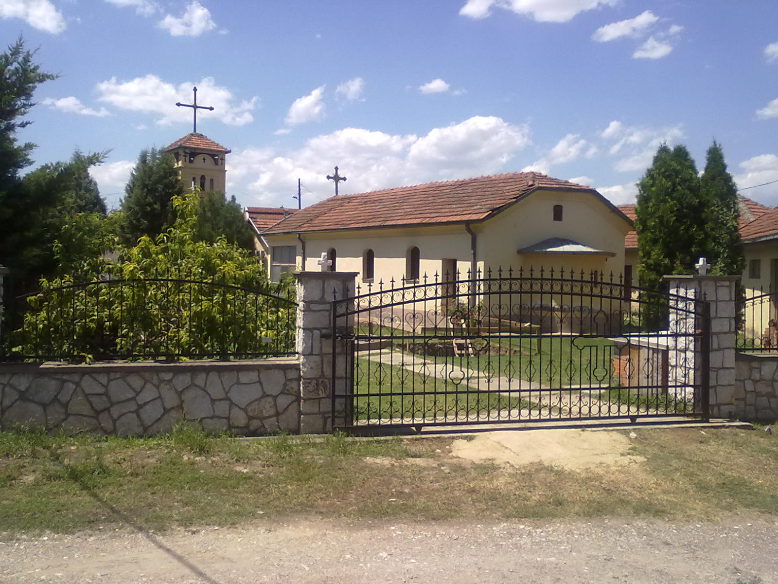 Sts. Constantine and Helena Church in Ilinden, Macedonia